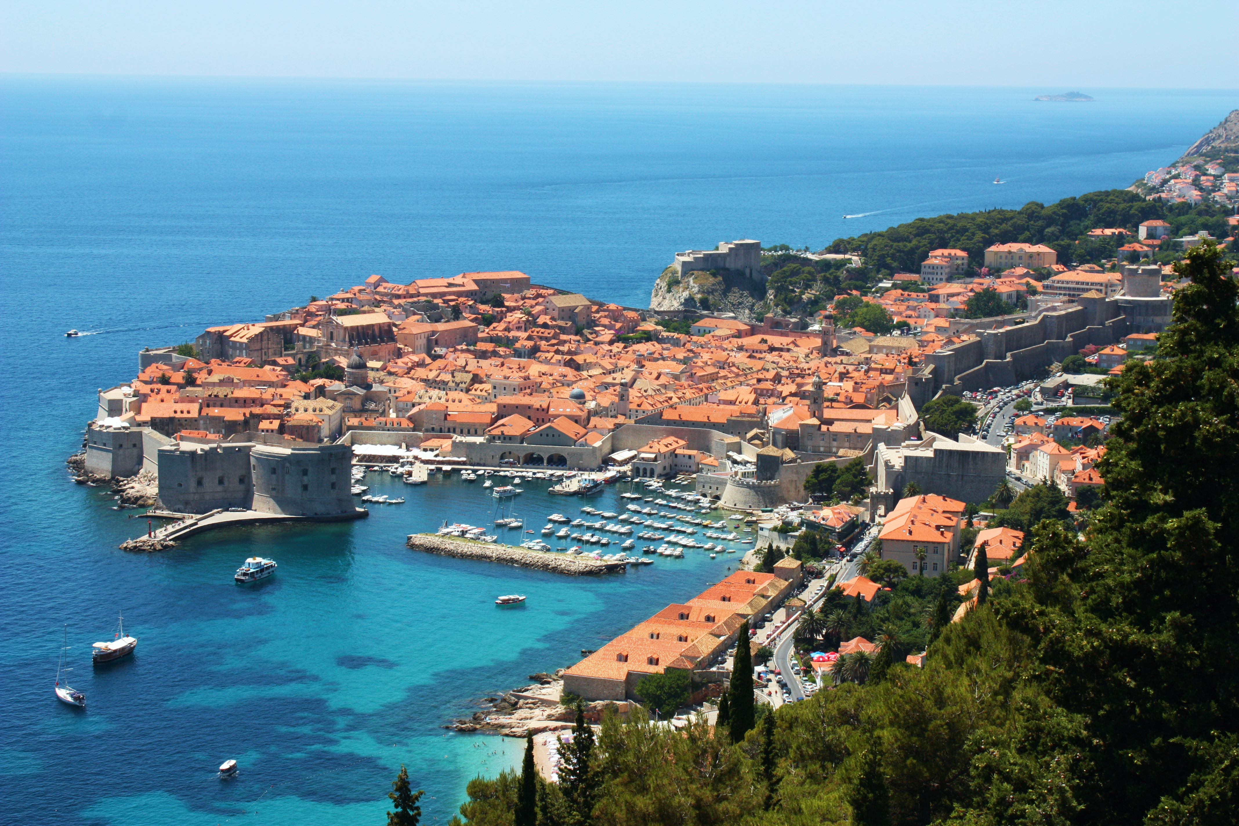 Dubrovnik, Old town with city walls